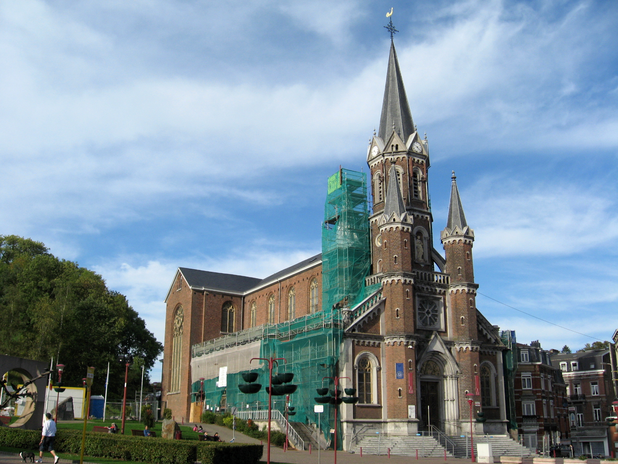 Church of Saint Fiacre in Dison, Liège, Belgium